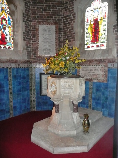 St. Mark's font Situated at the west end of the building.